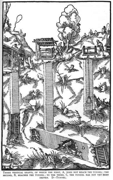 Woodcut image from De Re Metallica by Georgius Agricola